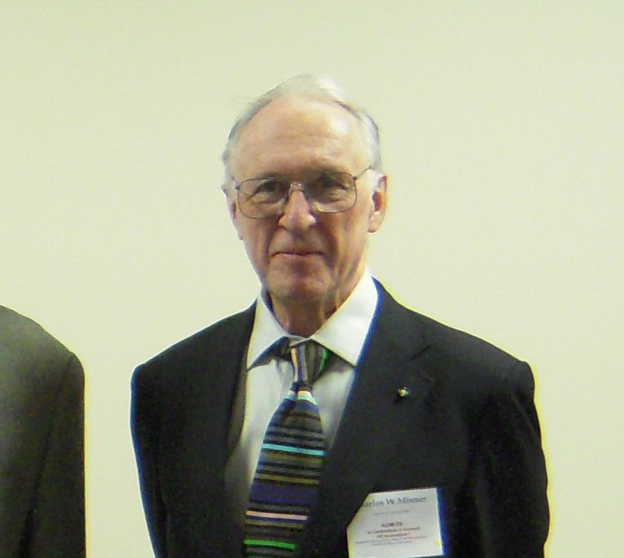 CM at the ADM-50 conference at Texas A&M University in College Station TX